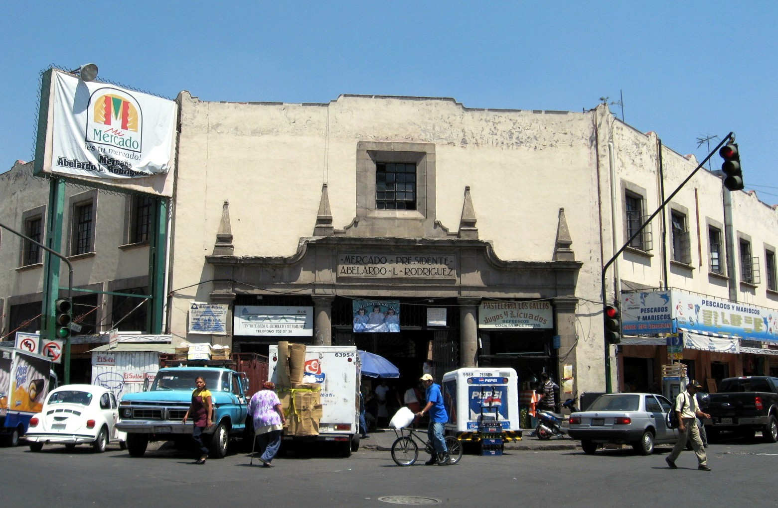 One of the outside entrances to the Abelard Rodriguez Market, location in the historic center of Mexico City